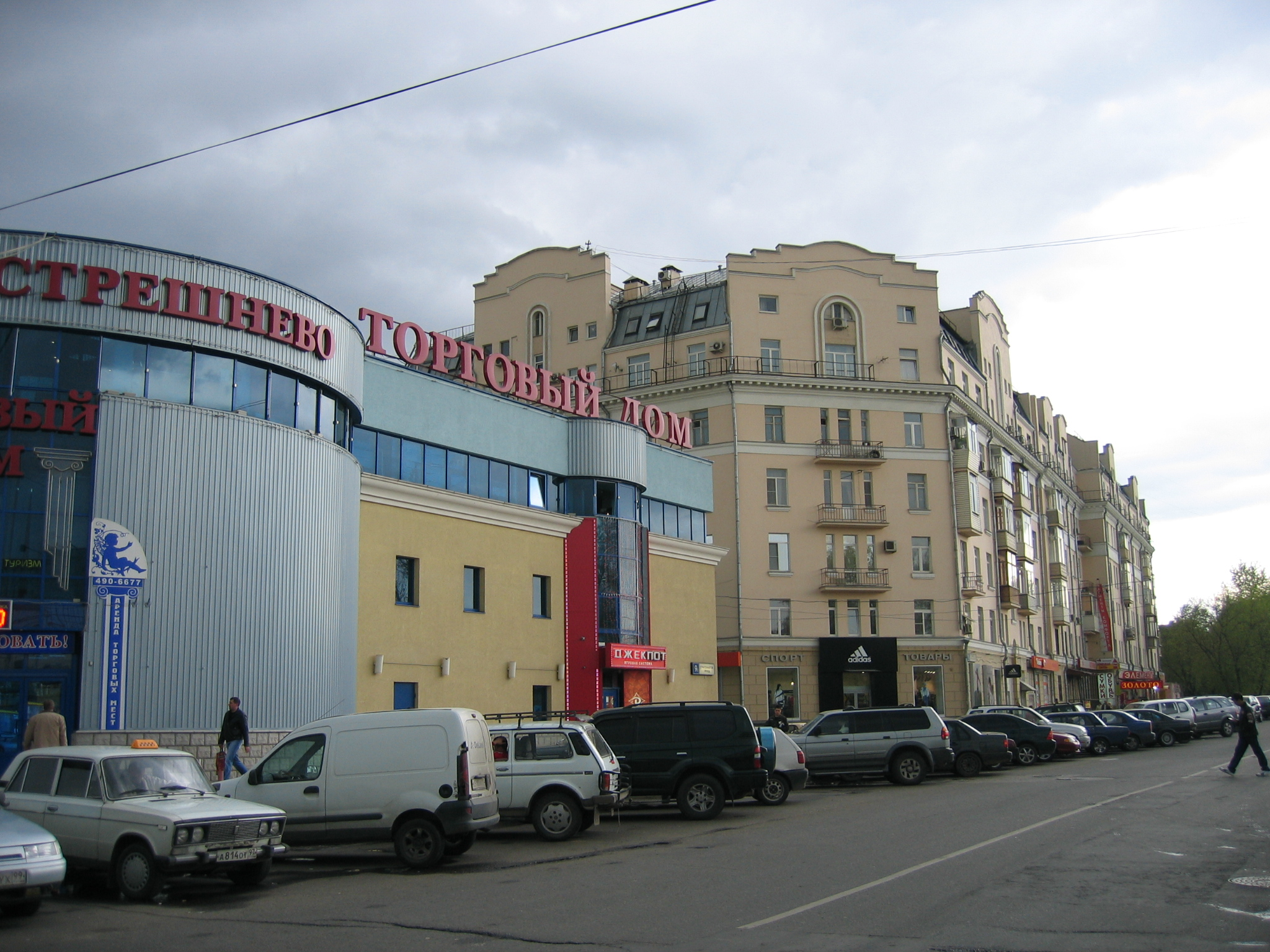 Stratonavtov Passage in Moscow